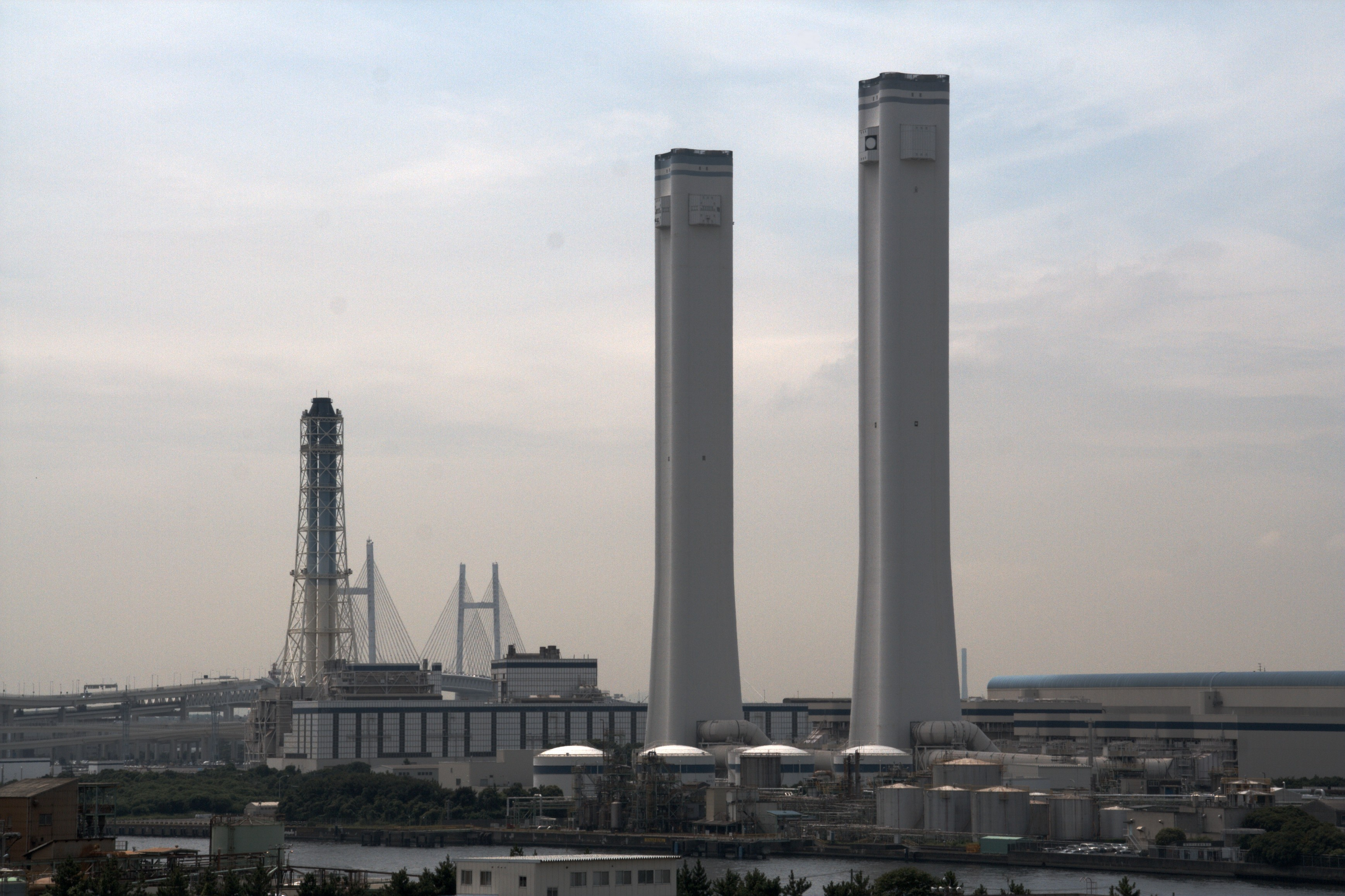 "Twin Tower" ; Air stack of the 7th and 8th power generators Yokohama Thermal Power Station, Tokyo Electric Power Company, Inc. Yokohama, Japan